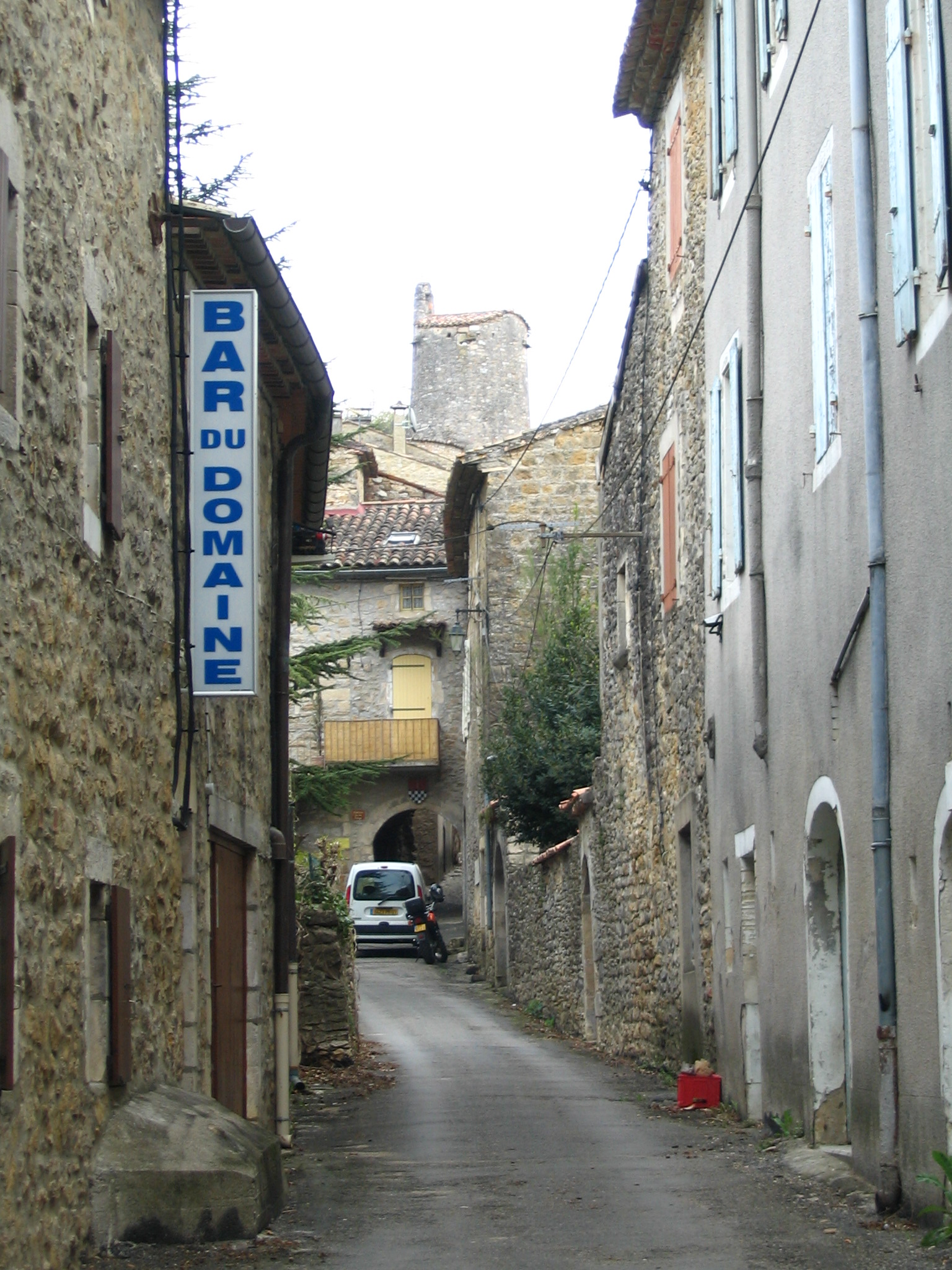 Village of Salavas Ardèche region, France